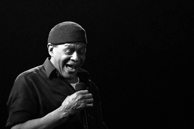 Al Jarreau at the 2006 North Sea Jazz Festival in Rotterdam (Netherlands).